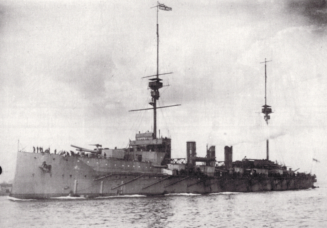 British armored cruiser HMS Shannon as built with short funnels